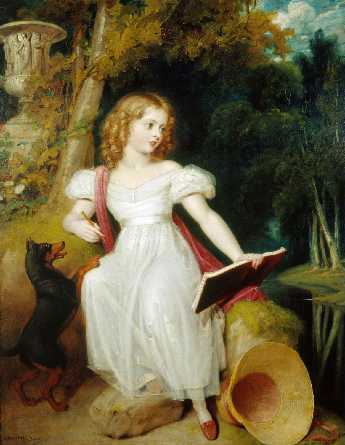 Portrait of Princess Alexandrina Victoria of Kent (later Queen Victoria)